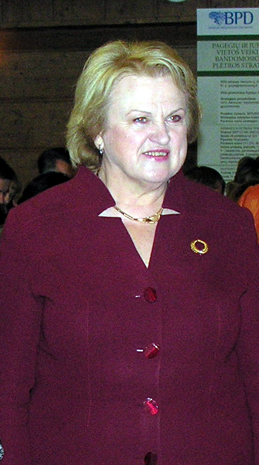 Kazimira Prunskienė